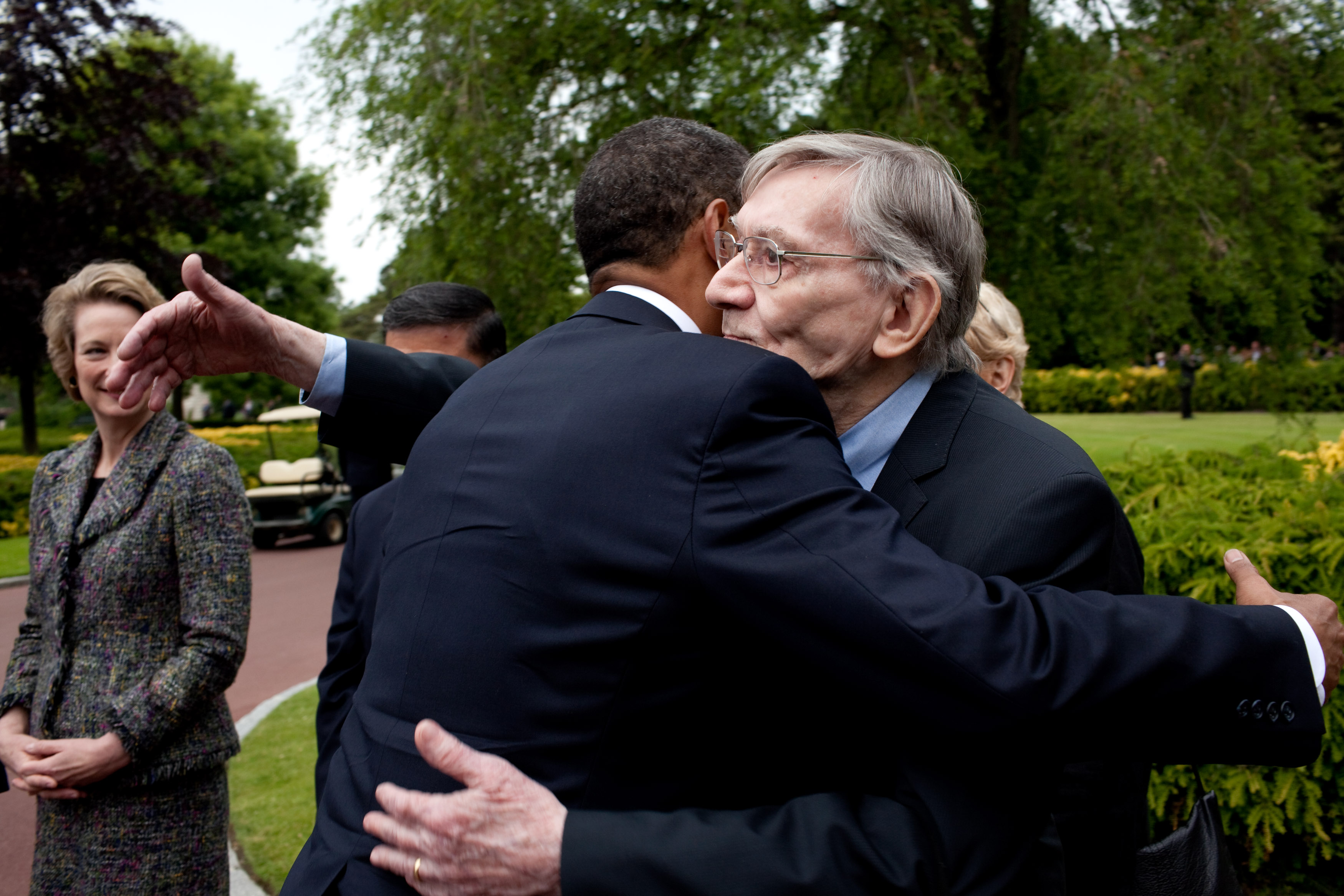 President Barack Obama embraces his great uncle Charles Payne following the President's speech at the 65th anniversary of the D-Day invasion in Normandy American Cemetery and Memorial, Normandy, France, June 6, 2009.